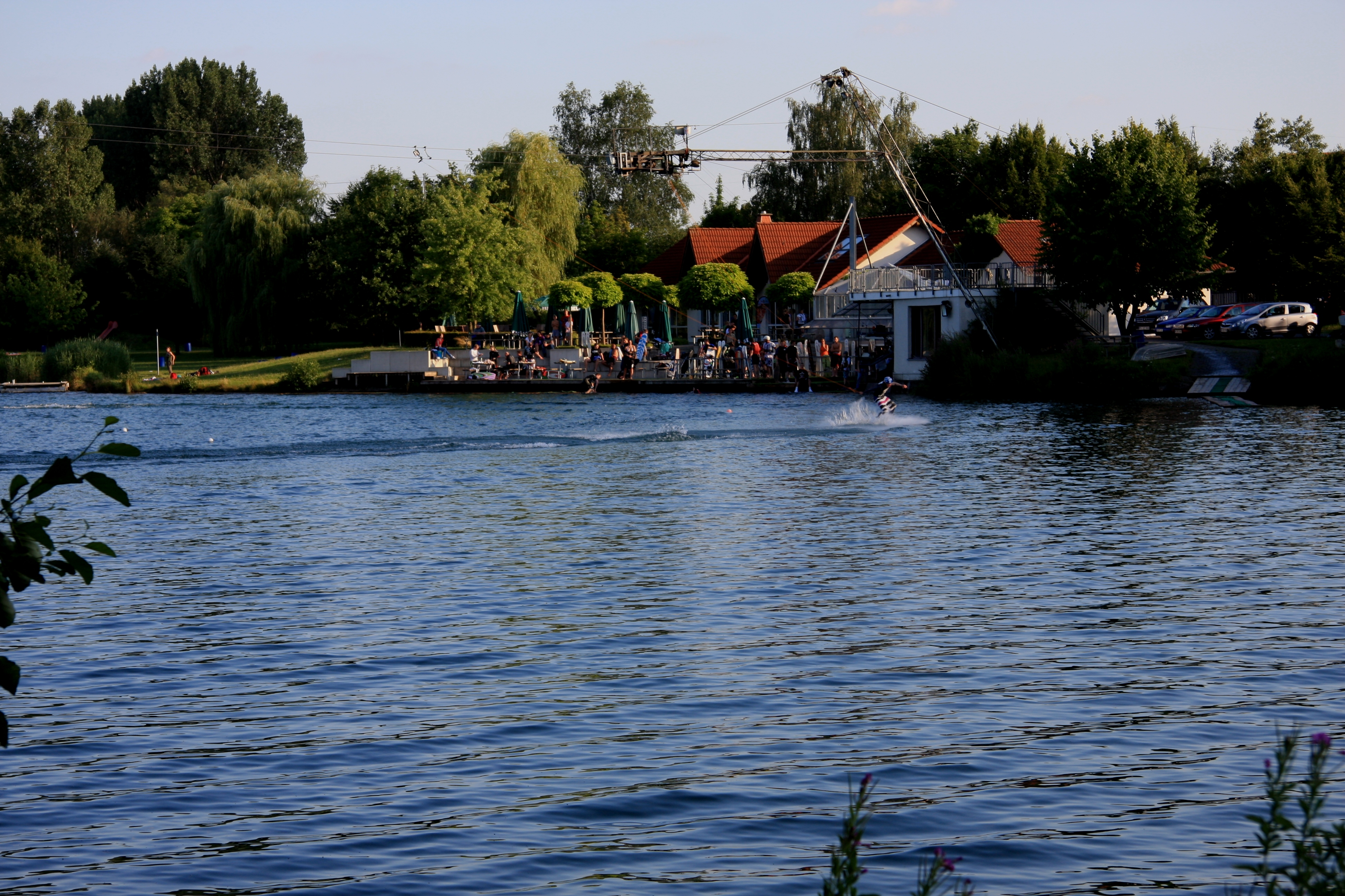 Waterskilift in Sande near Paderborn, Germany